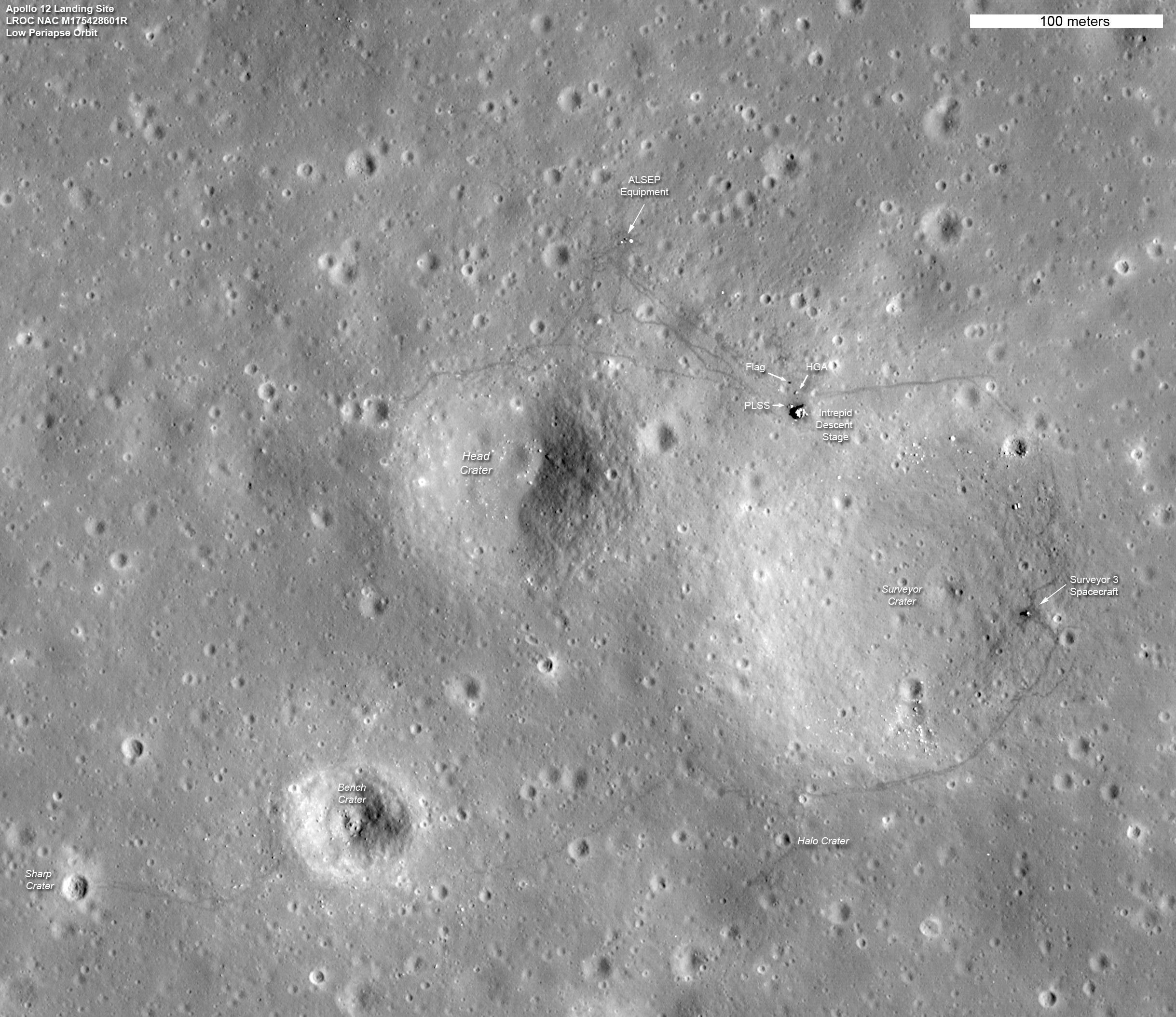 This image shows the remnants of not one, but two missions to the moon. Apollo 12 astronauts Pete Conrad and Alan Bean demonstrated that a precision lunar landing with the Apollo system was possible, enabling all of the targeted landings that followed. Bean and Conrad collected rock samples and made field observations, which resulted in key discoveries about lunar geology. They also collected and returned components from the nearby U.S. Surveyor 3 spacecraft, which landed at the site almost two-and-a-half years previously, providing important information to engineers about how materials survive in the lunar environment. Credit: NASA Goddard/Arizona State University NASA image use policy. NASA Goddard Space Flight Center enables NASA’s mission through four scientific endeavors: Earth Science, Heliophysics, Solar System Exploration, and Astrophysics. Goddard plays a leading role in NASA’s accomplishments by contributing compelling scientific knowledge to advance the Agency’s mission. Follow us on Twitter Like us on Facebook Find us on Instagram